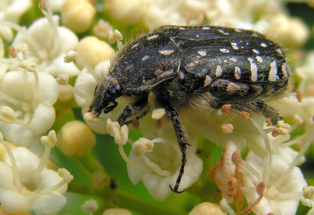 Oxythyrea funesta on the flowers of Viburnum opulus. Moscow region, Russia.